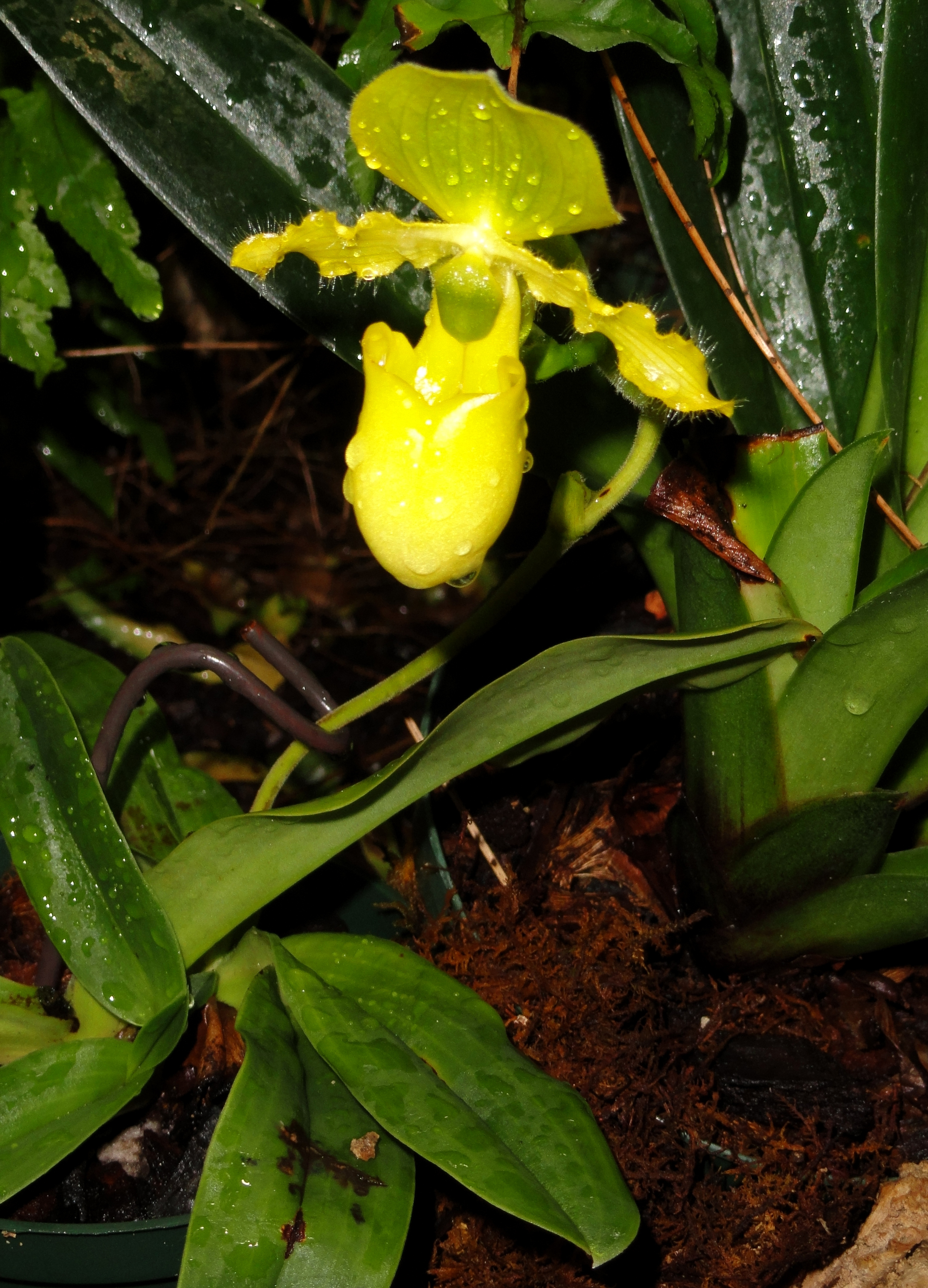 Botanical specimen in the United States Botanic Garden, Washington, DC, USA.